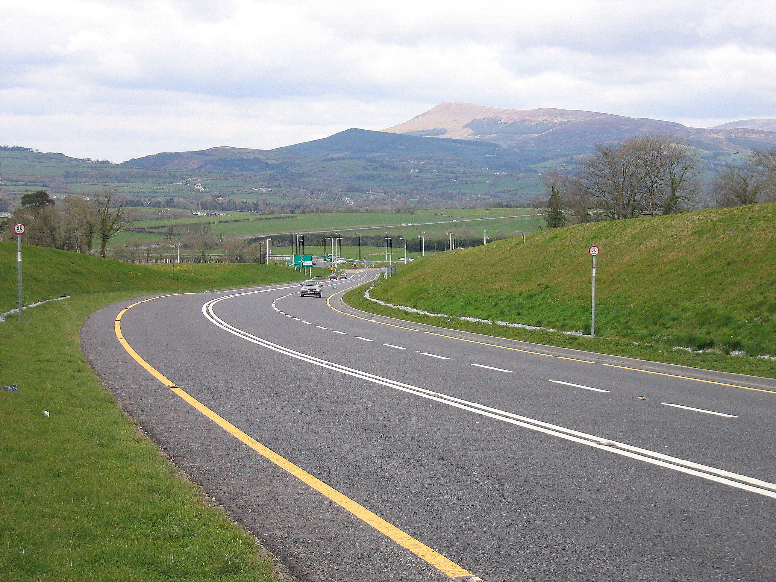 The Mitchelstown Bypass in 2007; then the N8 now N73.